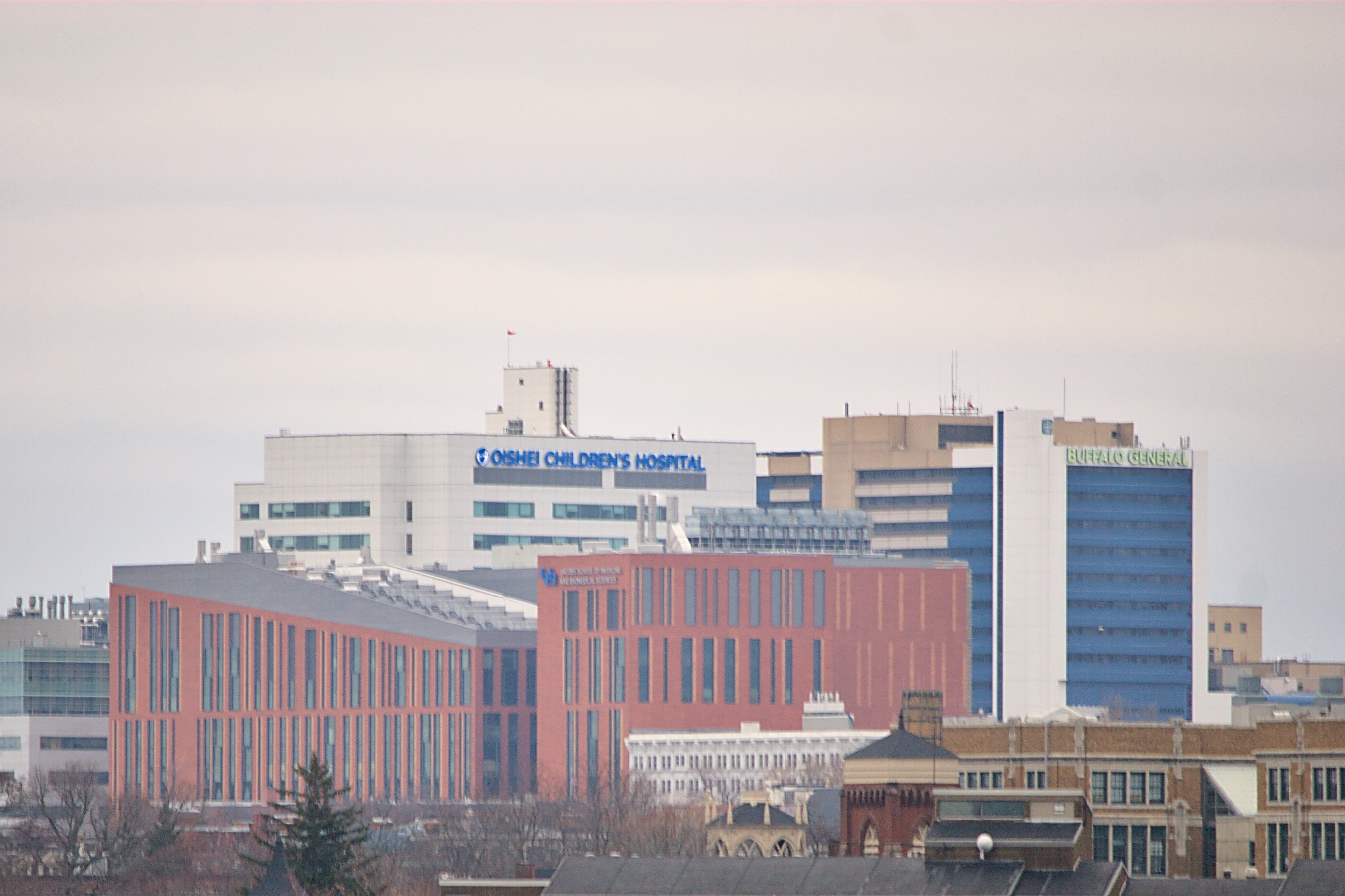 Buffalo Medical Campus from the Erie Basin Marina observation tower